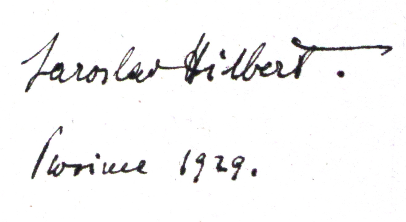 Autograph of Jaroslav Hilbert, Czech playwright and writer (1929)